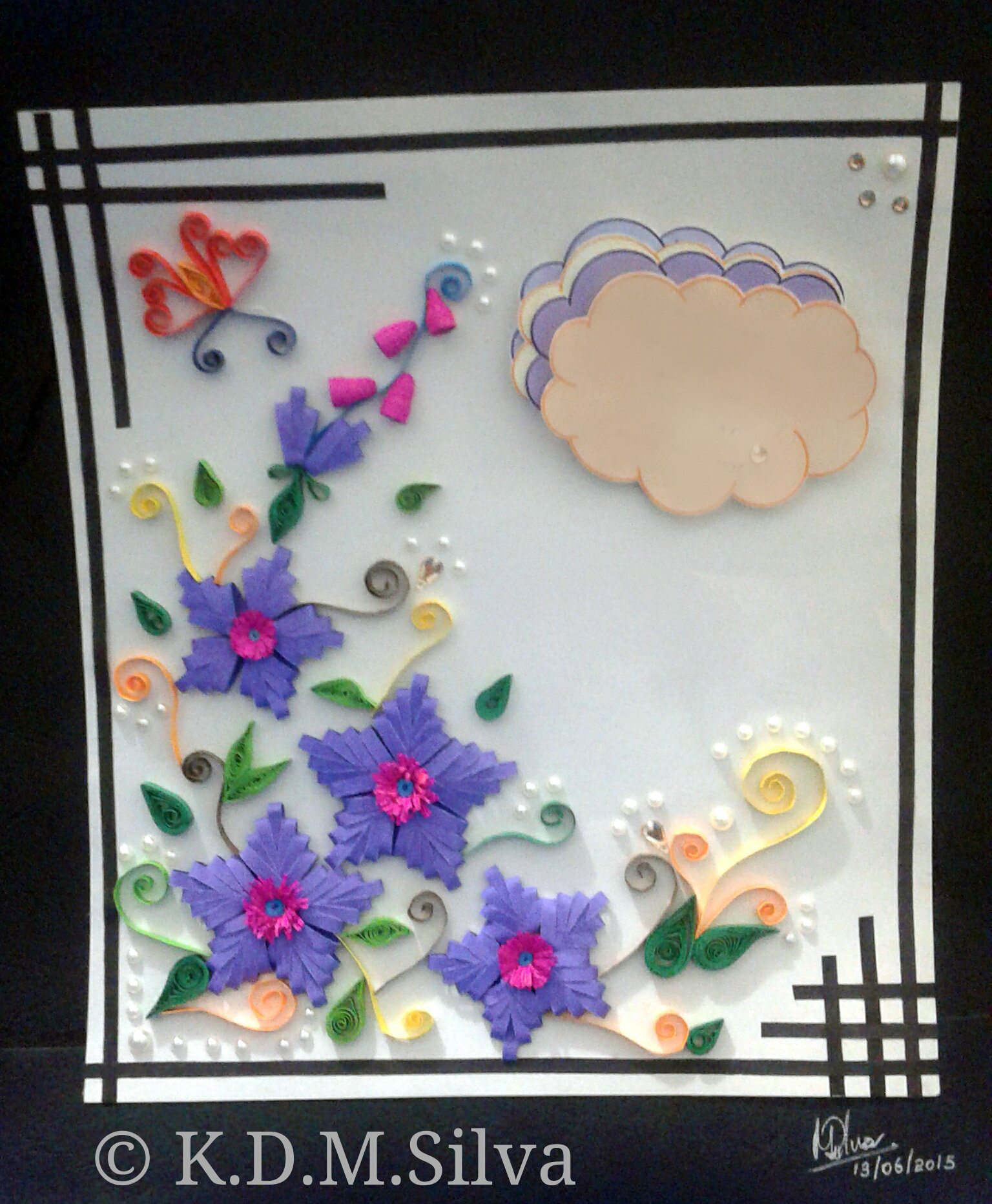 paper quilling